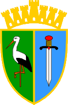 Official coat of arms of the Sisak-Moslavina county in Croatia, made from gif version at by Željko Heimer